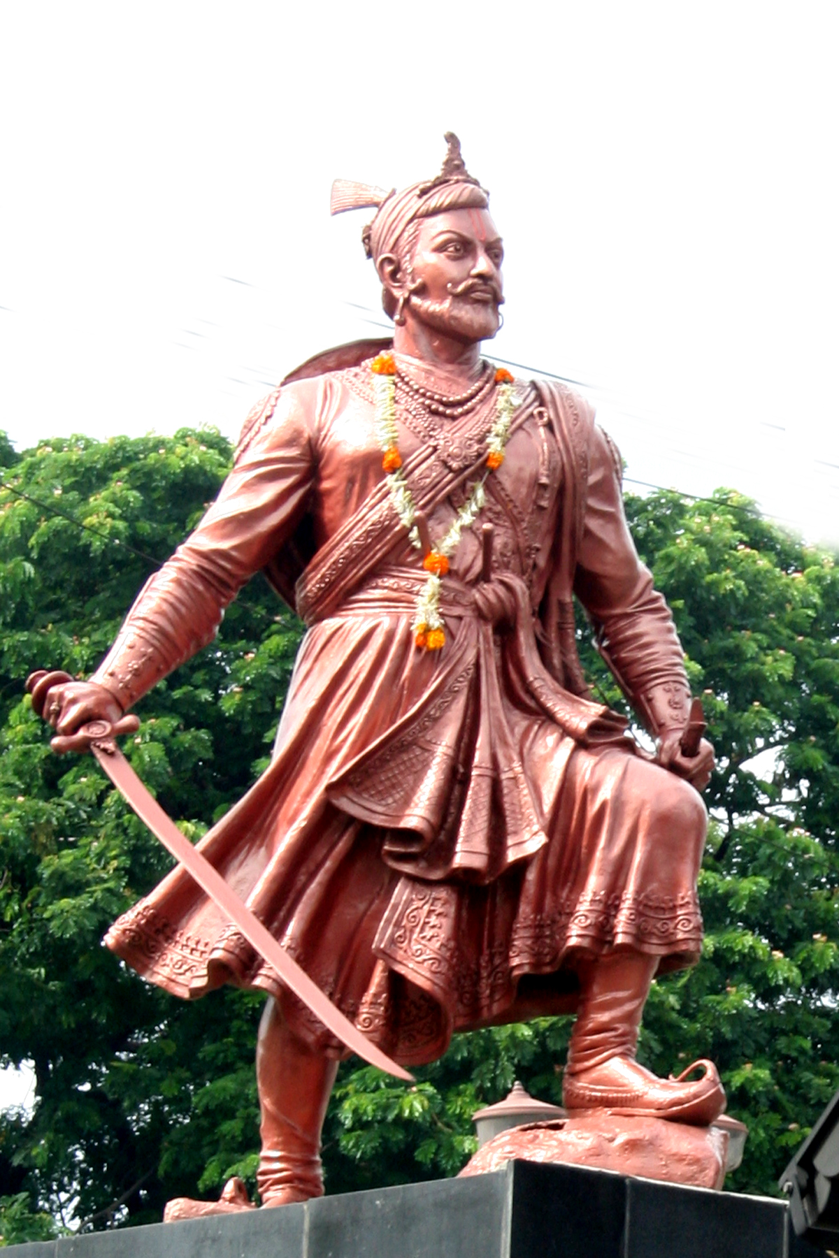 Sambhaji Maharaj Statue